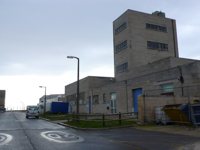 Southwell Enterprise Park One of the old buildings at the back of the old Admiralty Research establishment which is now a business park.